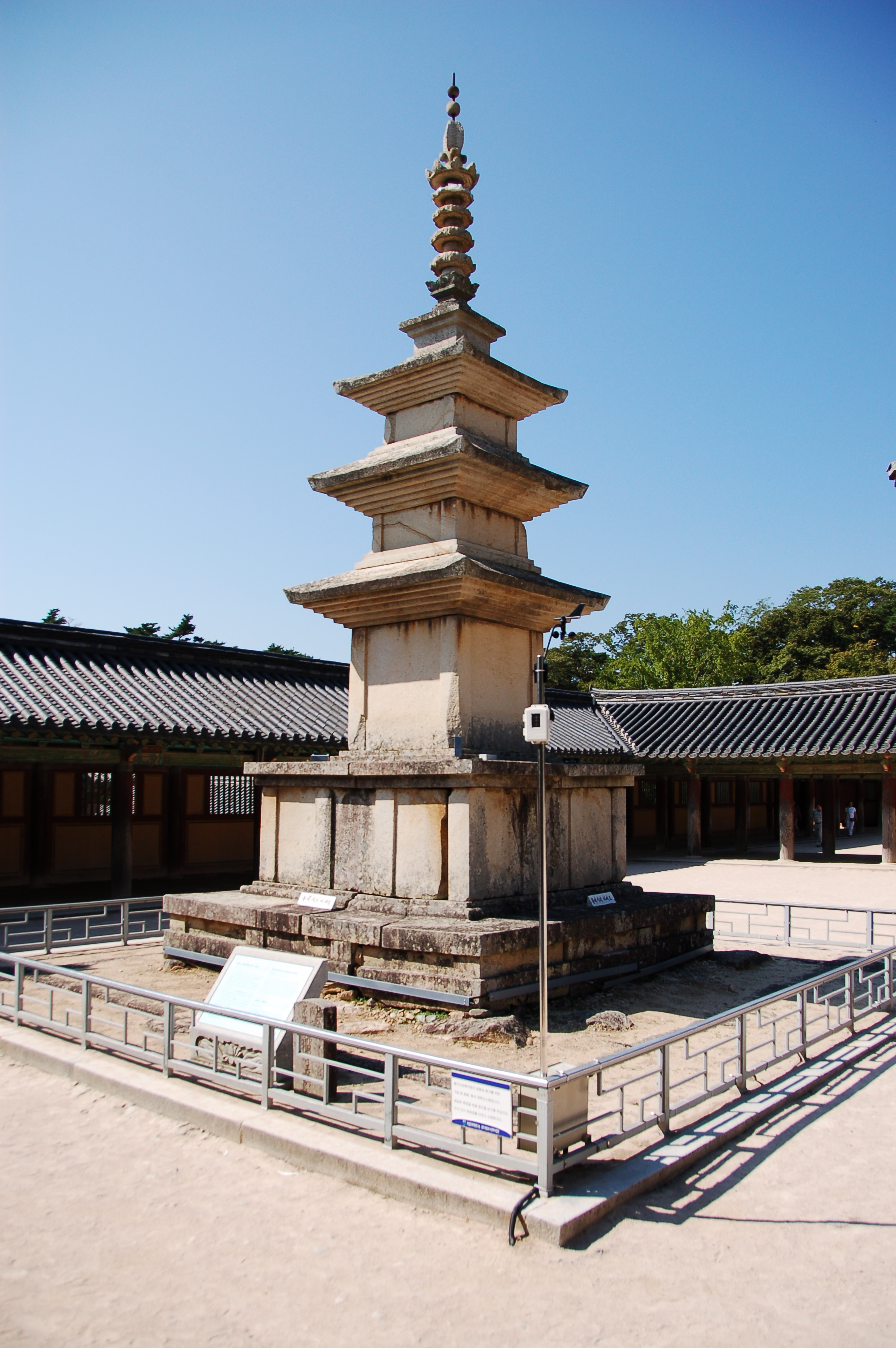 The Seokgatap is a stone pagoda in South Korea which was designated as the 21st National Treasure on December 12, 1962. Its full name is Sakyamuni Yeoraesangjuseolbeop Tap, and it is sometimes referred to as the Shadowless Pagoda or the Bulguksa Samcheung Seoktap ("three-storied stone pagoda of Bulguksa"). It stands 8.2 metres high and was likely completed by 751, when Bulguksa was completed.